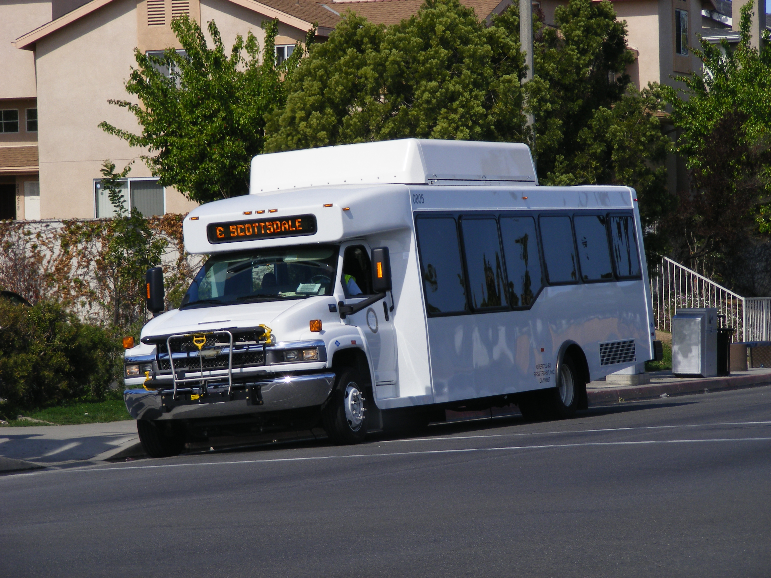 Carson Circuit: Scottsdale Line